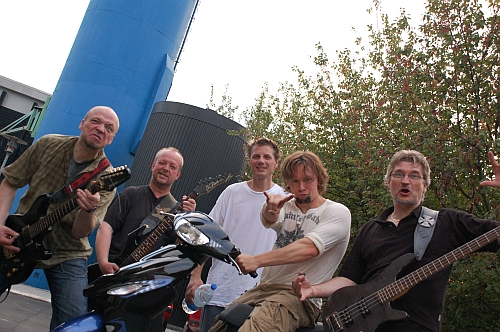 A picture I took of the band in 2010..